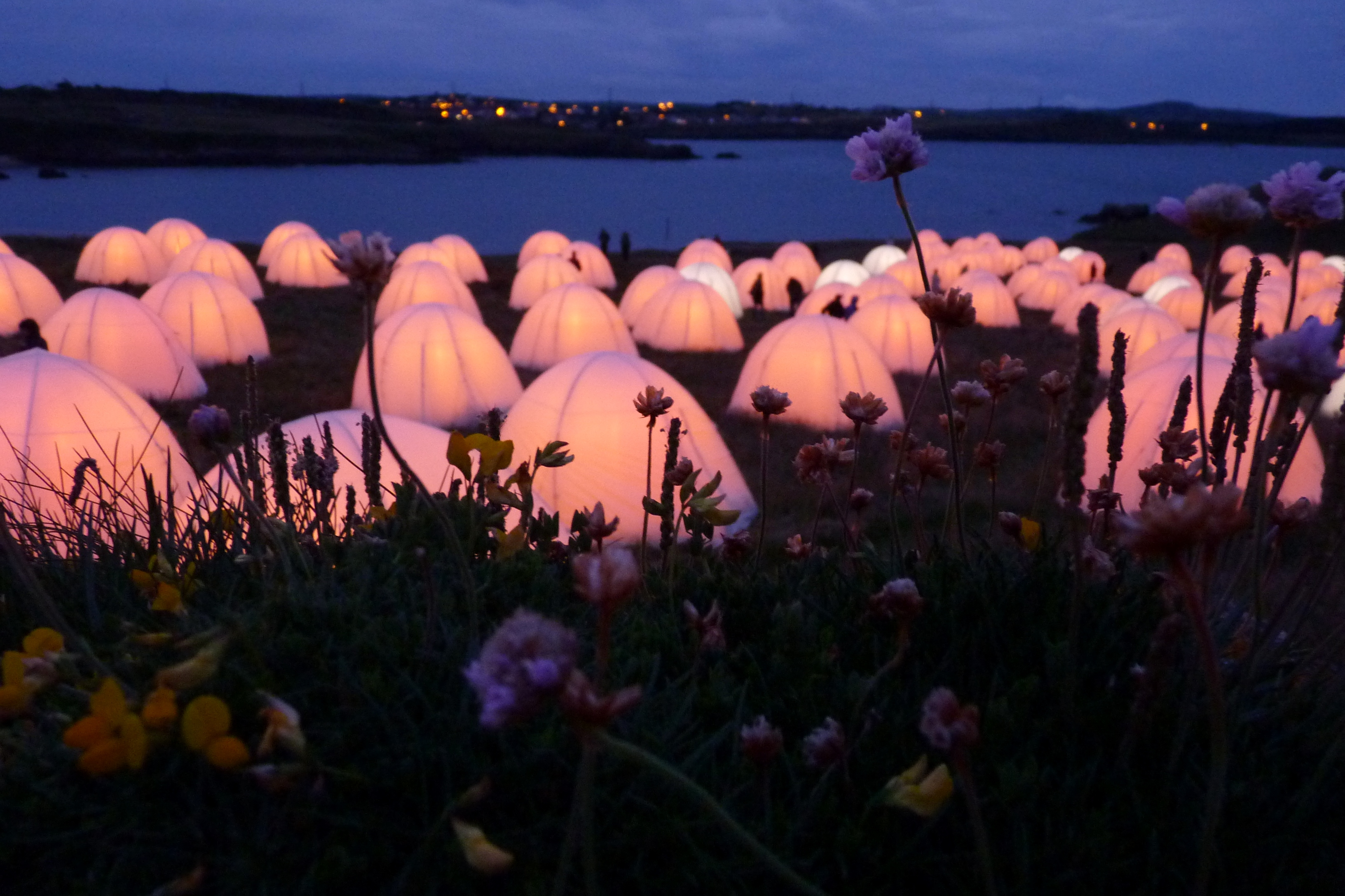 Part of the London 2012 Cultural Olympiad. Peace Camp was an installation at 8 coastal locations around Britain in which glowing dome tents and recitals of love poetry filled the site. This headland near St Patrick's Church, Cemaes Bay, was the Welsh location.